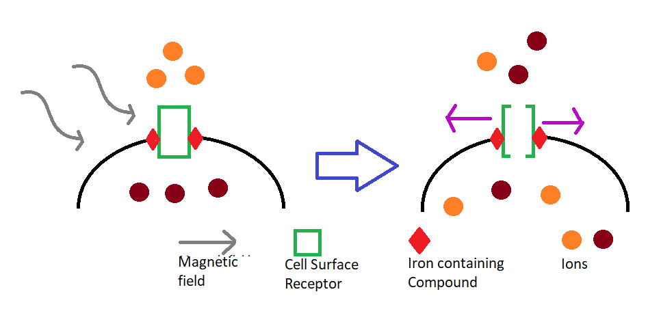 This is an illustration of paramagnetic proteins forcing ion channels in neurons open in the presence of an external magnetic field, whether by mechanical or thermal means.